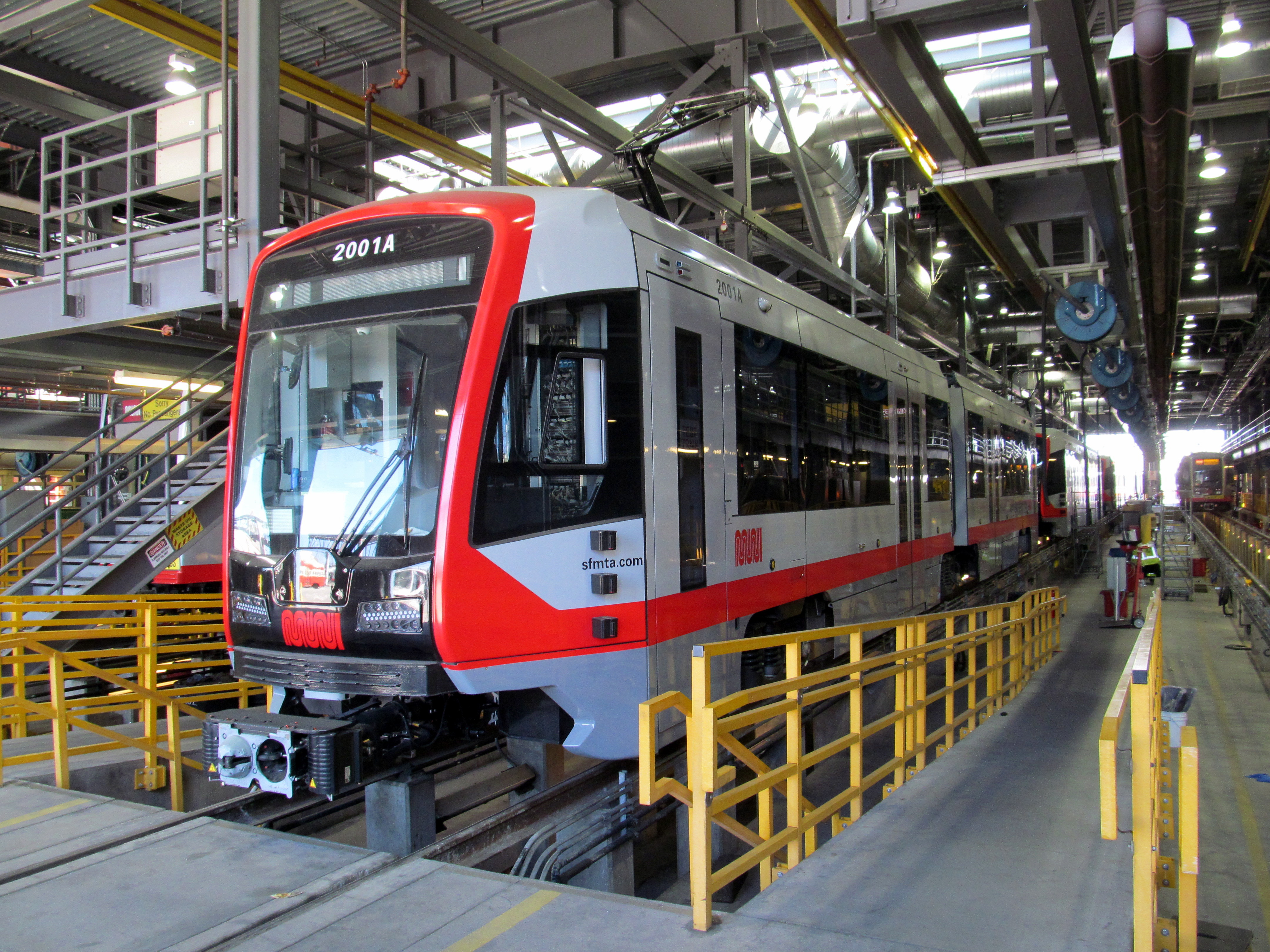 LRV4 (Siemens S200 SF) #2001 at Muni Metro East in July 2017. Photo taken with permission during a private tour.